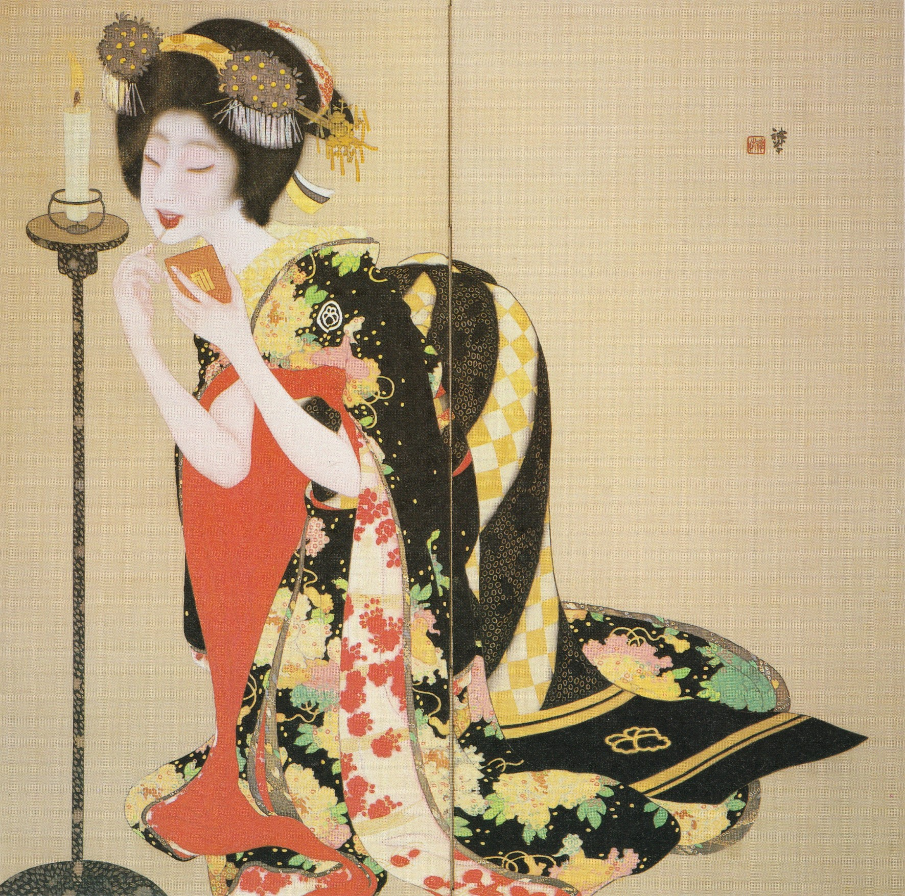 Okamoto Shinsō "Rouge"